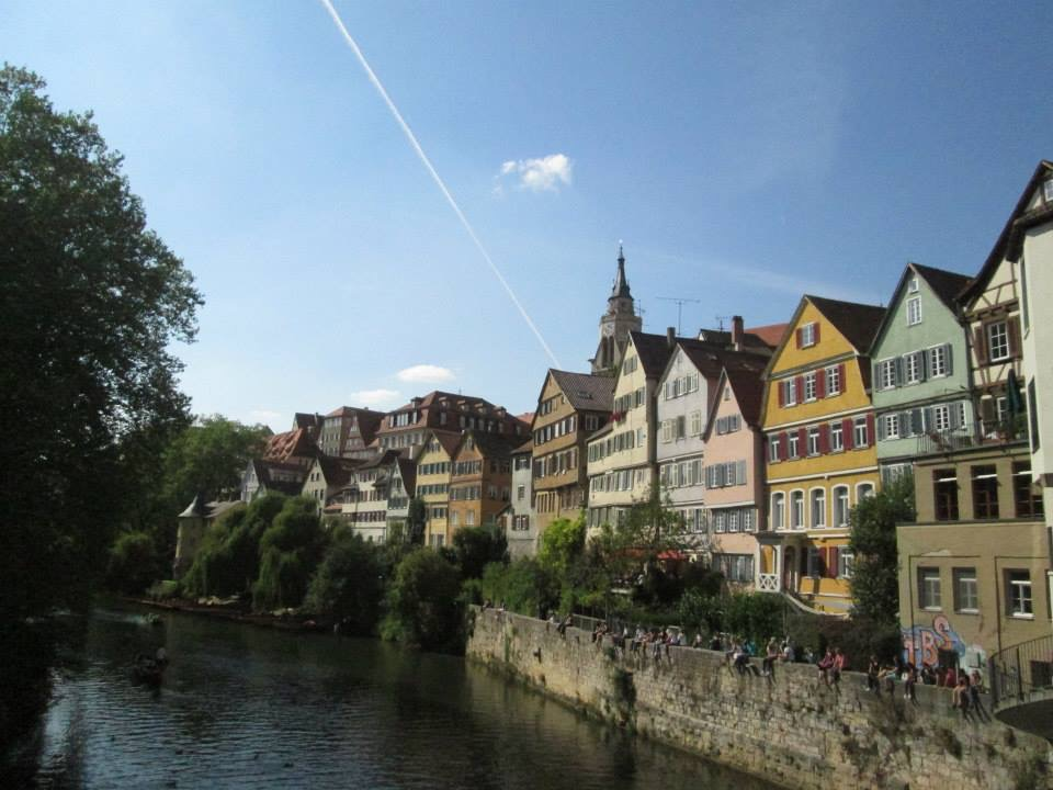 Tübingen waterfront